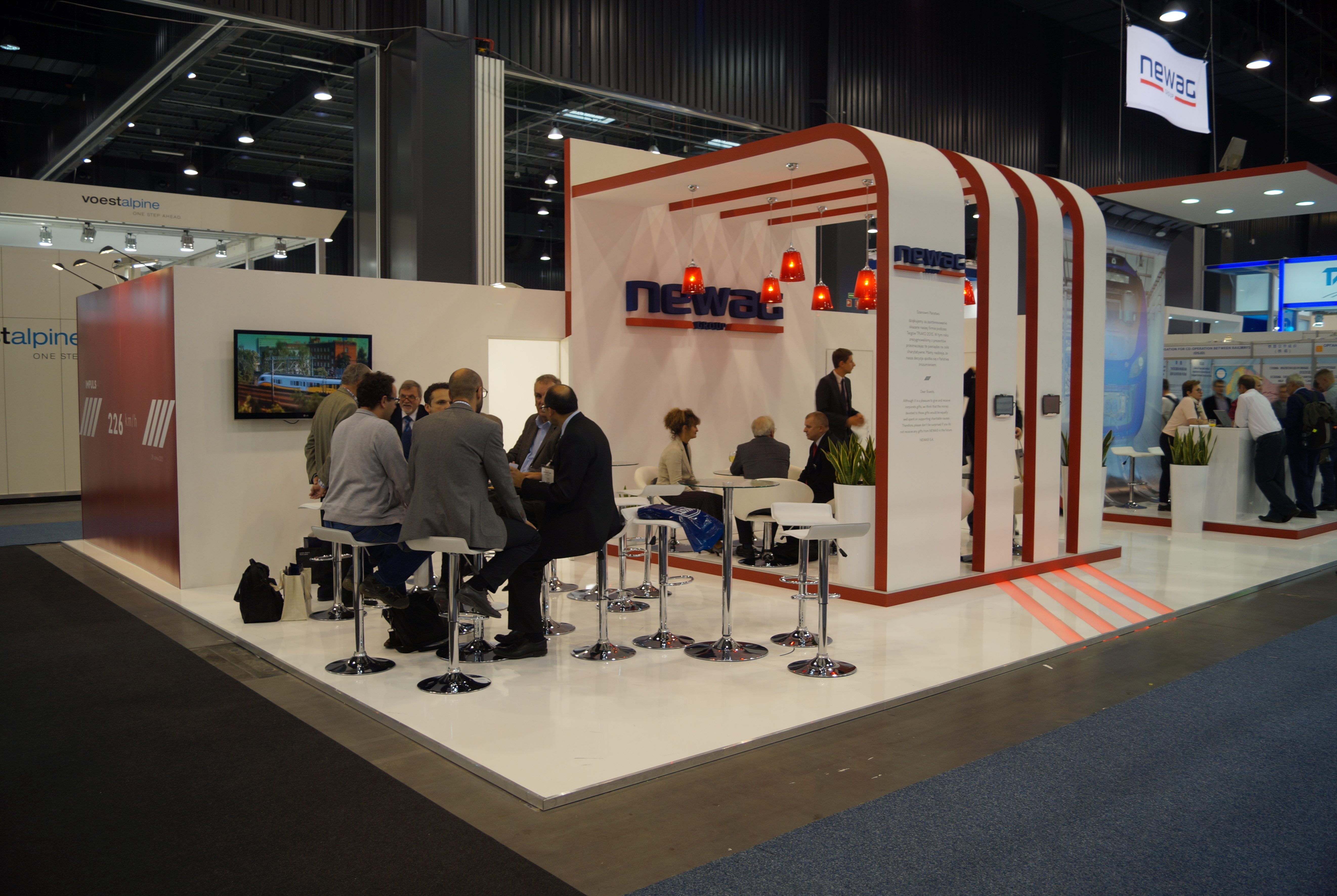 The making of this document was supported by Wikimedia Polska Association, within Wikigrant no. WG 2015-34. Stoisko Newag na Targach Trako 2015